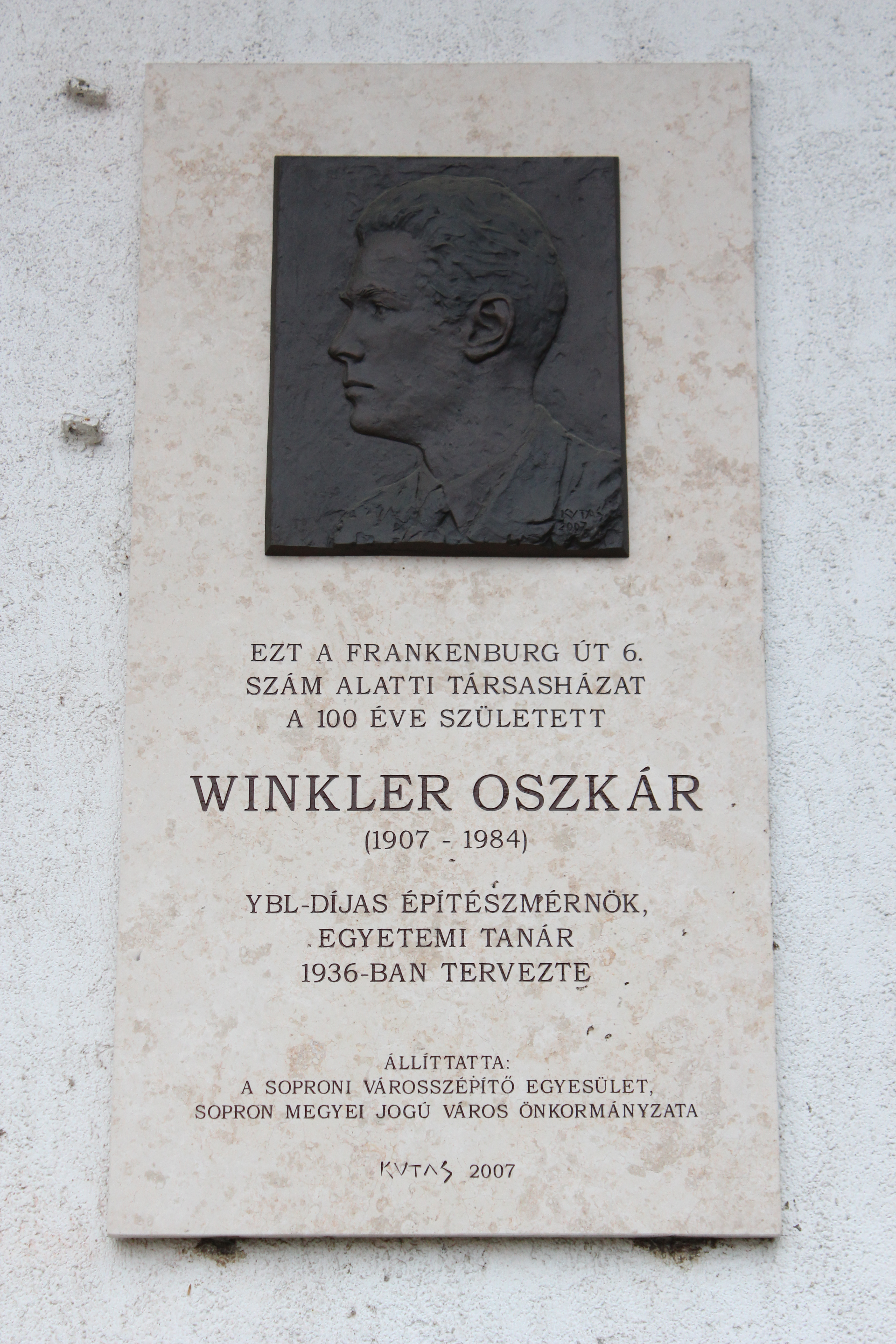 Commemorative plaque of Oszkár Winkler (Sopron, Hungary). Sculptor: László Kutas, 2007.